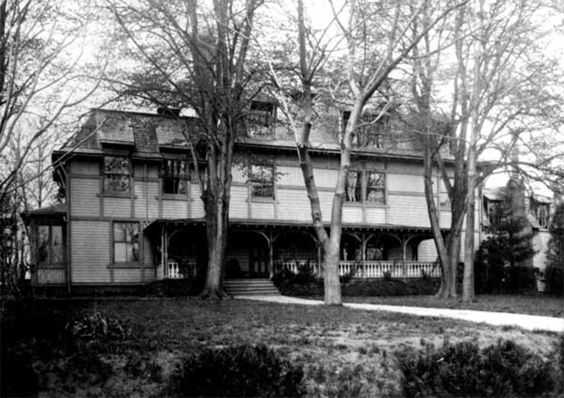 "Linden Shade." Residence of Dr. Horace H. Furness. Architects, Furness & Evans.